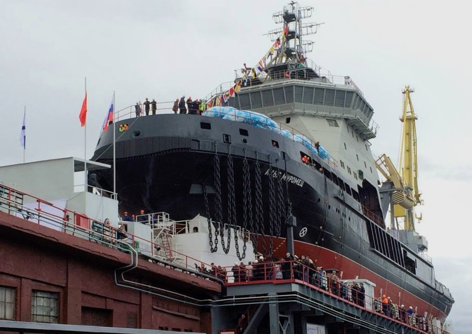 Icebreaker Ilya Muromets, project 21180, year of build 2017